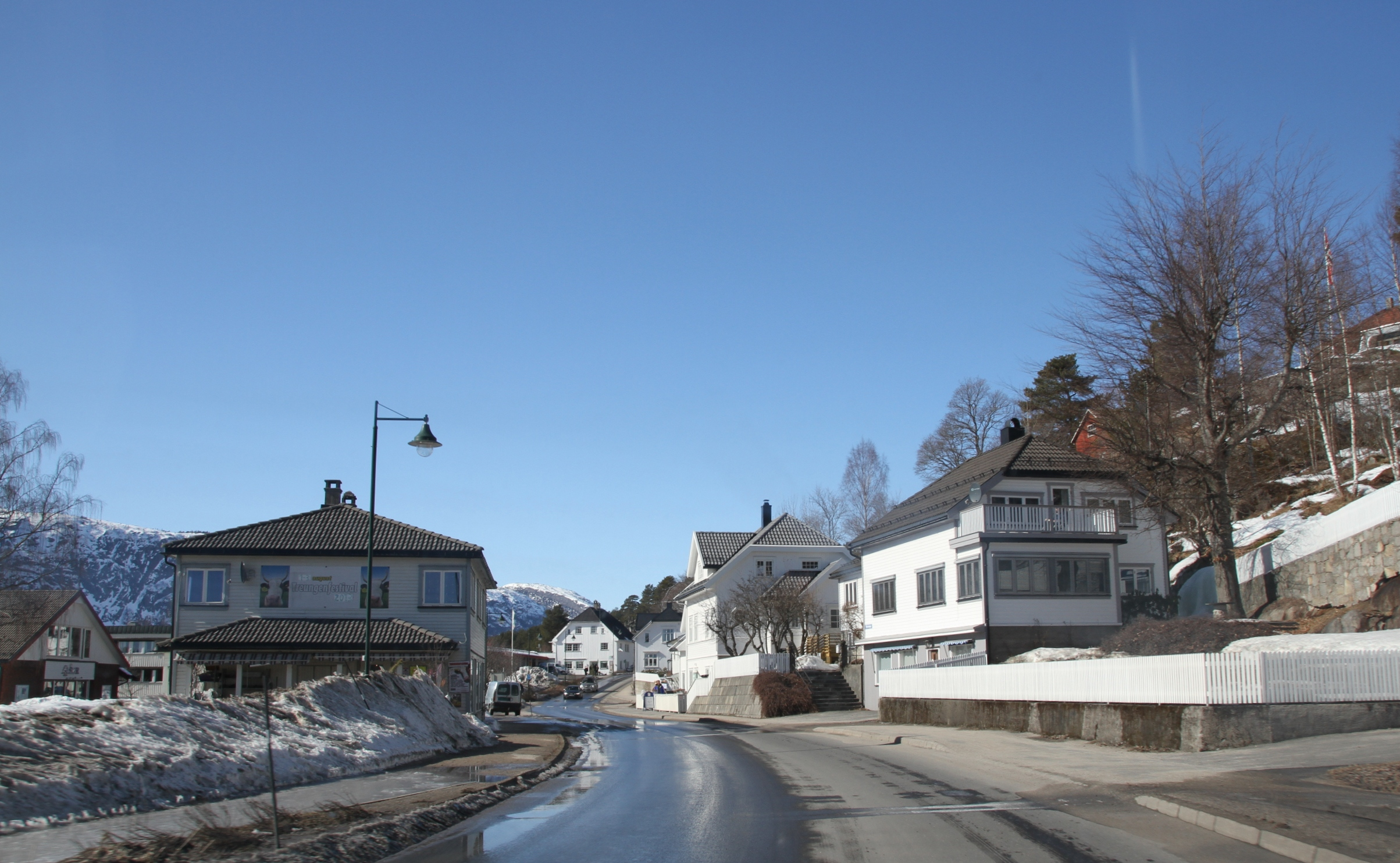 Image from the settled area of Treungen, around Treungen township - the center of Nissedal municipality, in Telemark county, Norway